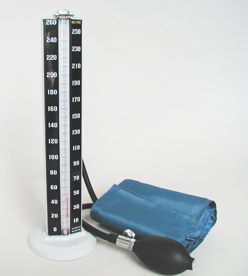 Mercury manometer.